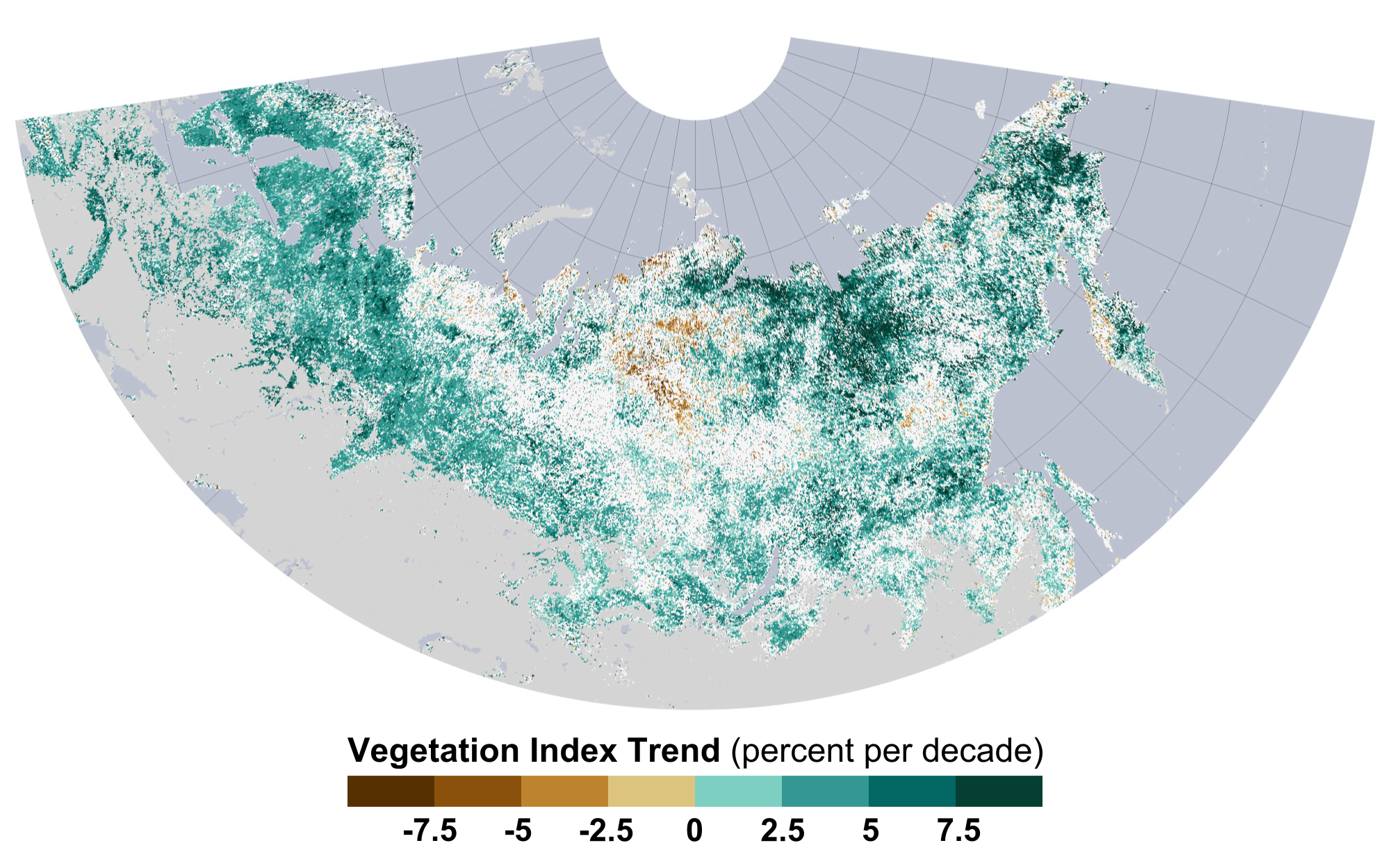 Over the past three decades, temperatures have risen faster in the Arctic than anywhere else in the world. Consequently, the growing season has gotten longer in the far northern latitudes, bringing major changes to plant communities in tundra and boreal (also known as taiga) ecosystems. For decades, instruments on various NASA and NOAA satellites have continuously monitored vegetation from space. The Moderate Resolution Imaging Spectroradiometer (MODIS) and Advanced Very High Resolution Radiometer (AVHRR) instruments measure the intensity of visible and near-infrared light reflecting off of plant leaves. Scientists use that information to calculate the Normalized Difference Vegetation Index (NDVI), an indicator of photosynthetic activity or “greenness” of the landscape. The map shows NDVI trends between July 1982 and December 2011 for the northern portions of North America and Eurasia. Shades of green depict areas where plant productivity and abundance increased; shades of brown show where photosynthetic activity declined. There was no significant trend in areas that are white, and areas that are gray were not included in the study. An international team of university and NASA scientists published their analysis of the NDVI data in Nature Climate Change in March 2013. The map shows a ring of greening in the treeless tundra ecosystems of the circumpolar Arctic—the northernmost parts of Canada, Russia, and Scandinavia. Tall shrubs and trees started to grow in areas that were previously dominated by tundra grasses. The researchers concluded that plant growth had increased by 7 to 10 percent overall.